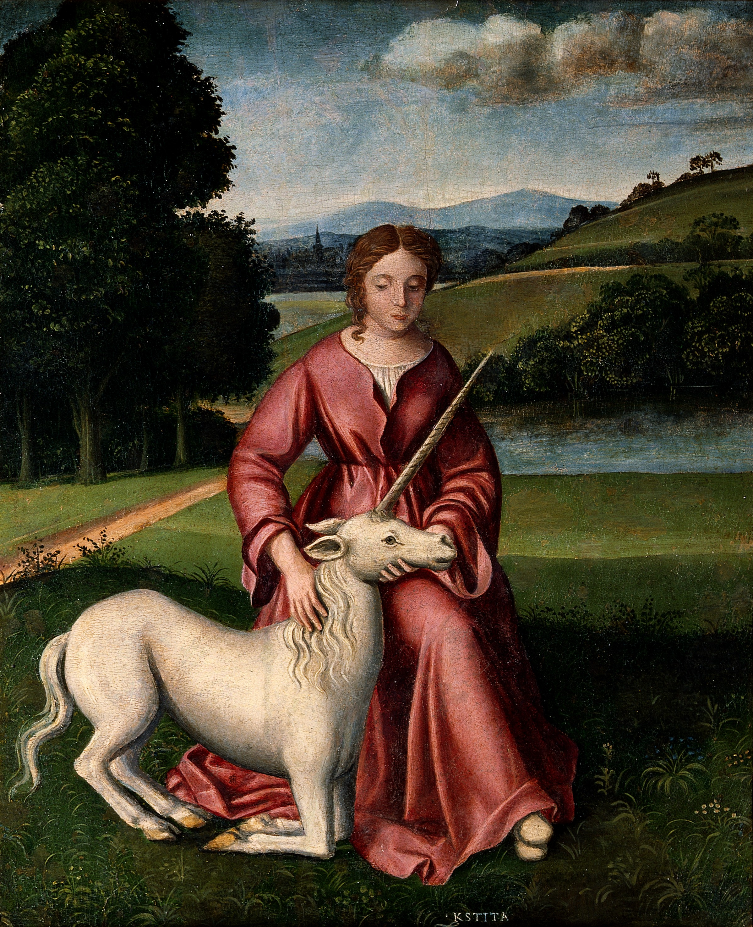 Chastity (a virgin and a unicorn). Oil painting by a follower of Timoteo Viti. Iconographic Collections Keywords: Timoteo Viti